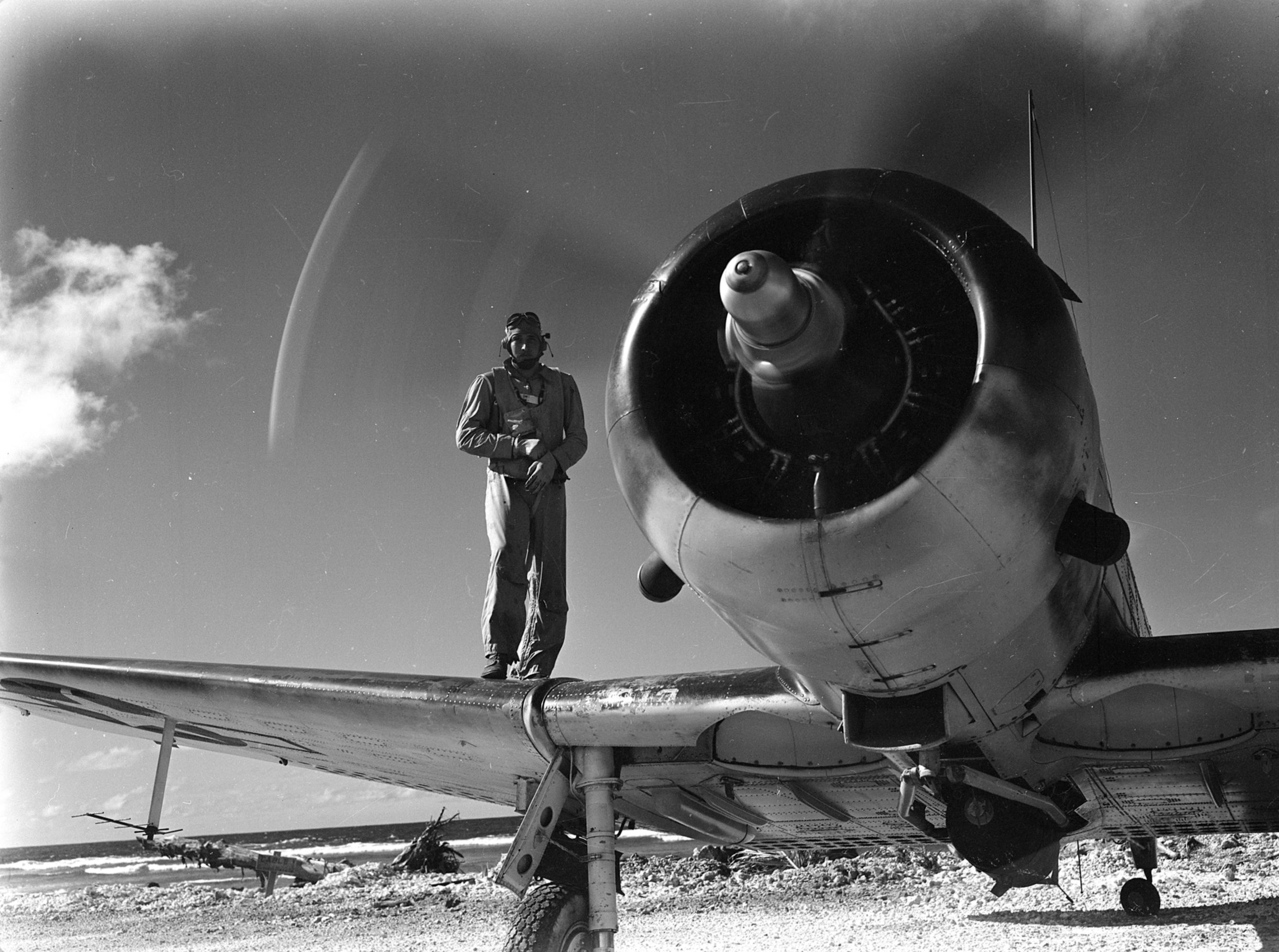 Pilot Capt. John F. Adams, USMC, of U.S. Marine Corps dive bomber scouting squadron VMSB-231 is standing on the wing of his Douglas SBD-5 Dauntless plane at Dalop Island, Majuro Atoll, Marshall-Islands, in August 1944.